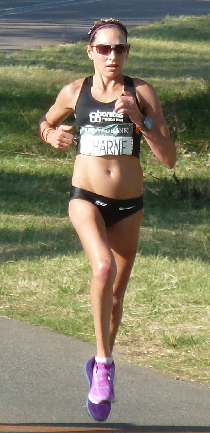 Charne Bosman by die 50 km-merk in die 2013 Comrades opwedloop. Sy het die wedloop in 5de plek voltooi in 'n tyd van 6:53:34. In 2015 het sy tweede plek behaal in 'n tyd van 06:33:24.